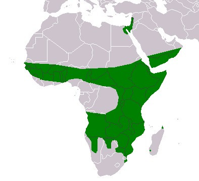 Ficus sycomorus distribution map.